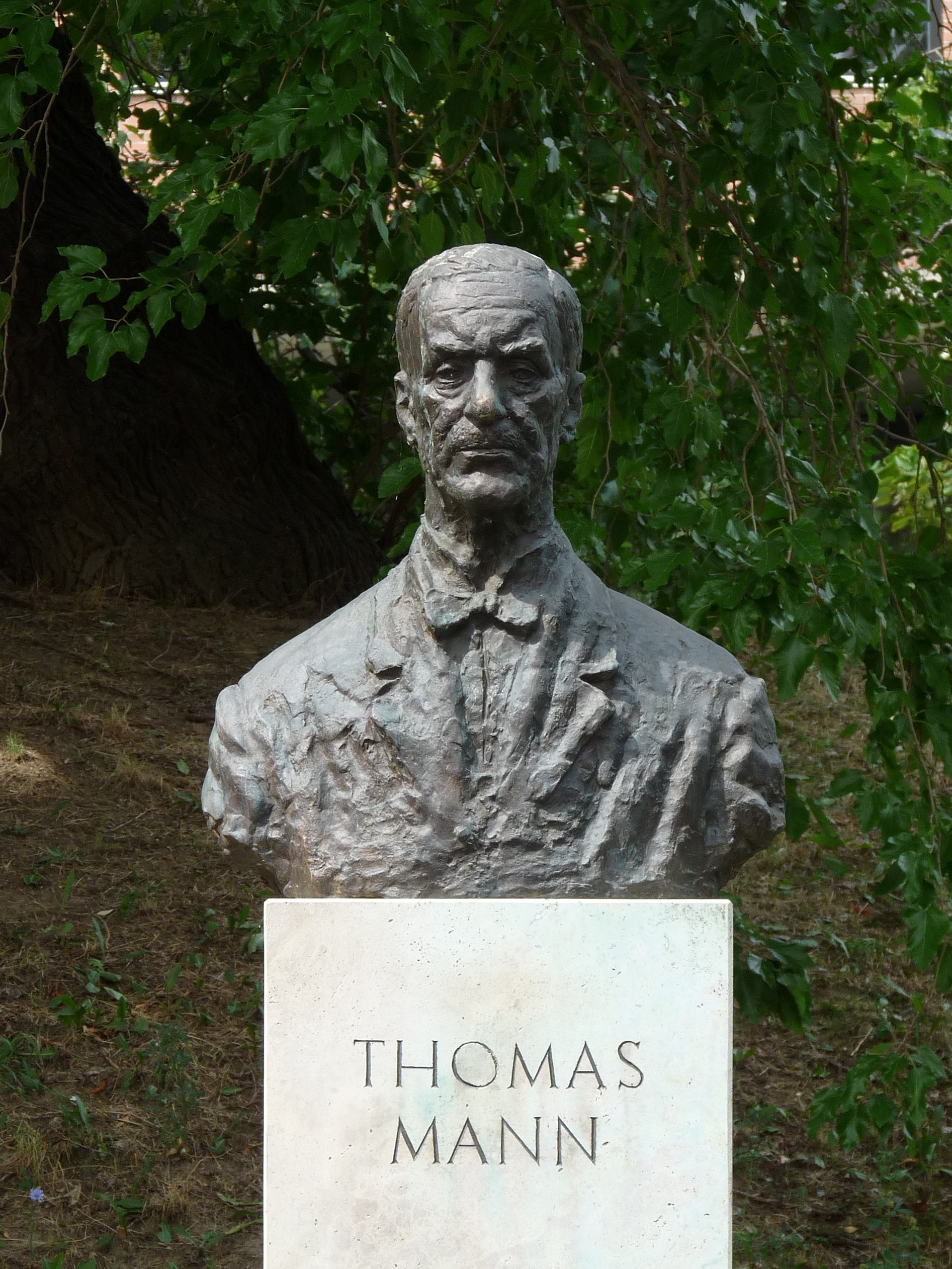 Bust of the German Writer Thomas Mann (1875—1955) in Óbuda, carved by sculptor László Varga in 1987. (Budapest, District III, Bécsi Avenue Nr 134)